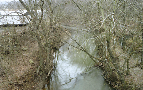 Photograph by Tim Kiser. The West Fork of Duck Creek at Caldwell, 1 January 1997.